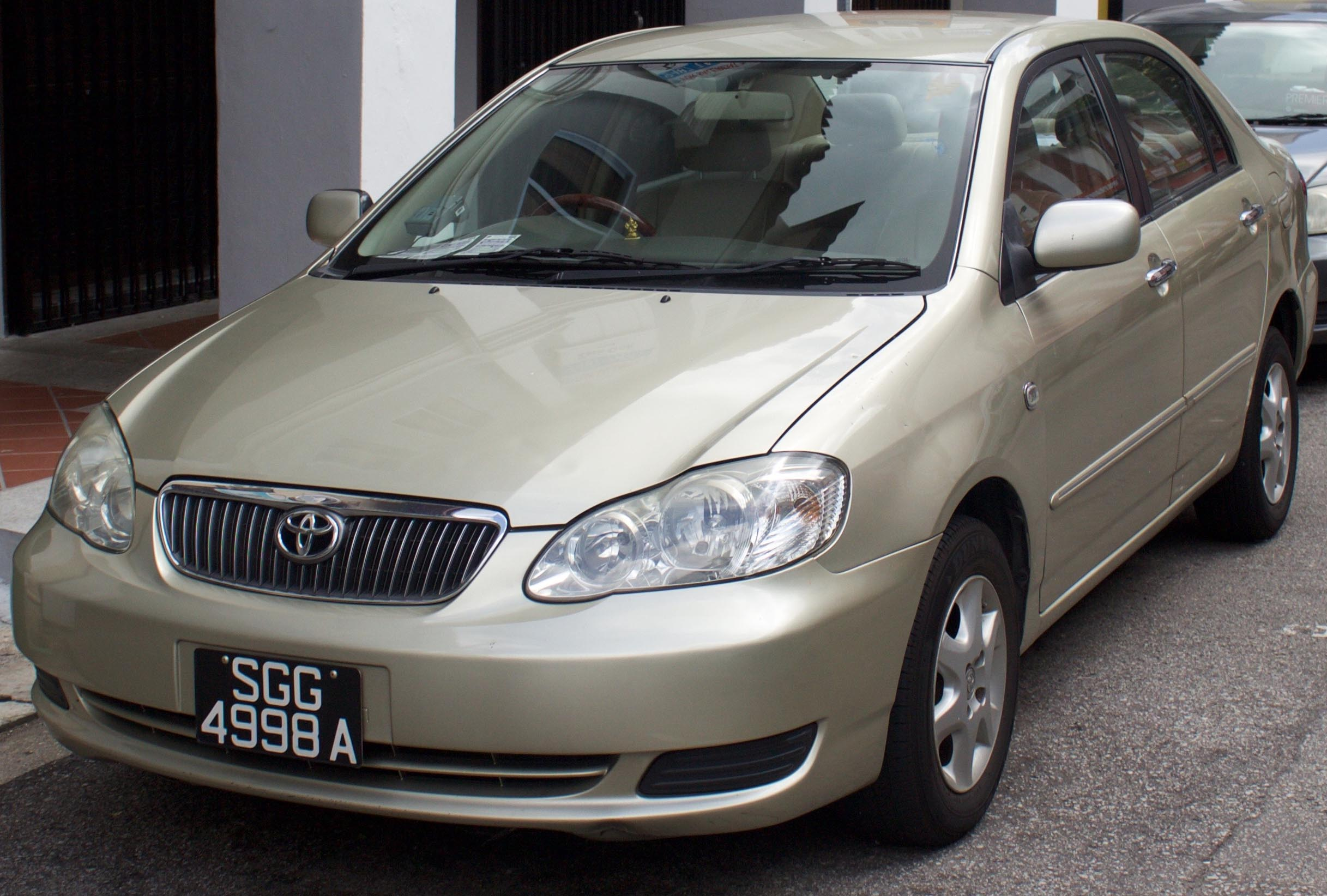 2006 Toyota Corolla Altis 1.6E VVT-i sedan. Photographed in Singapore. Vehicle registration enquiry resultsJurisdictionSingaporeRegistrationSGG4998AChassis codeMR053ZEC107119062Engine code3ZZ4564435Year of manufacture2006